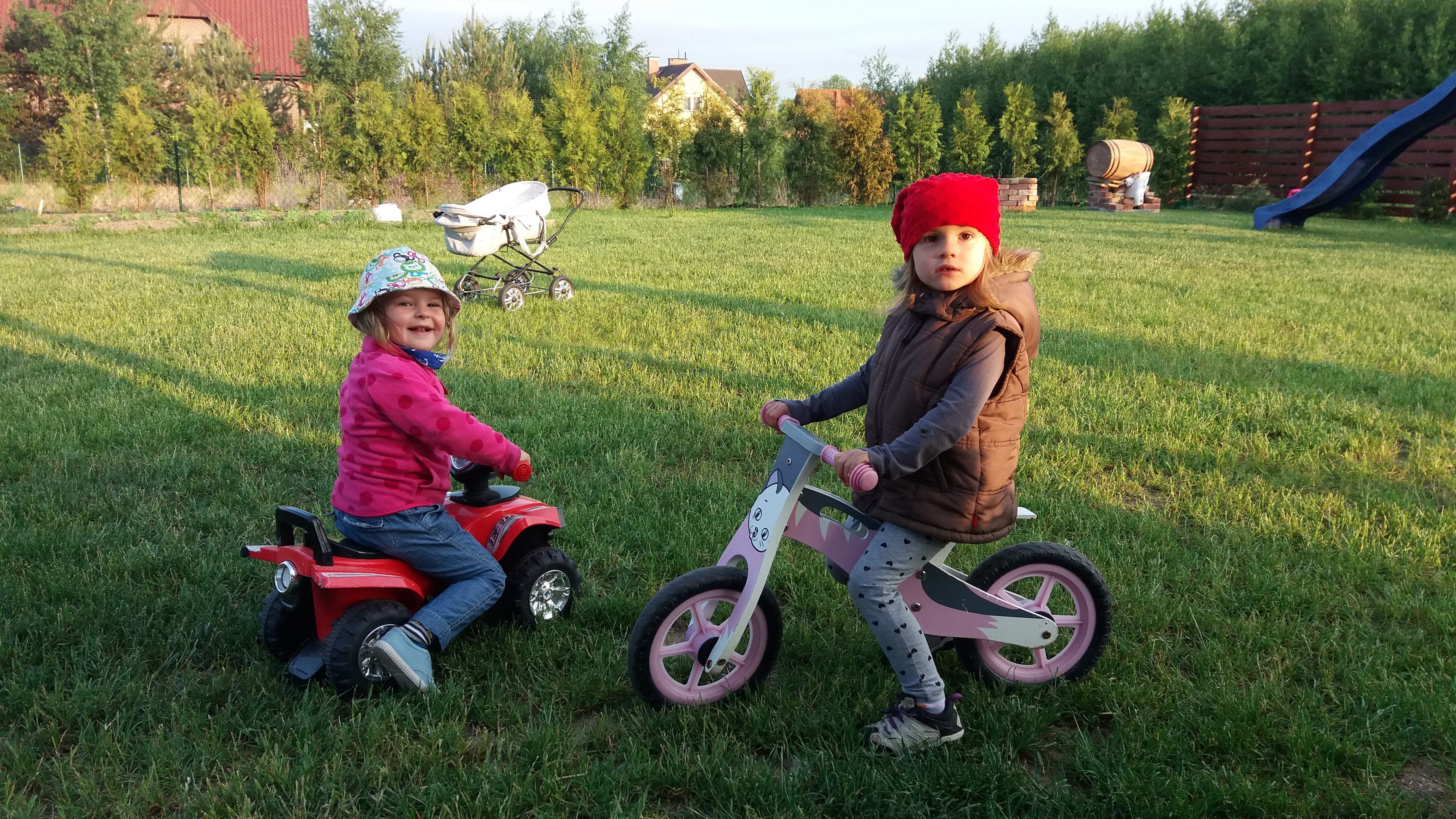 Wooden bicycle for young child allows effective learning to ride a bicycle.